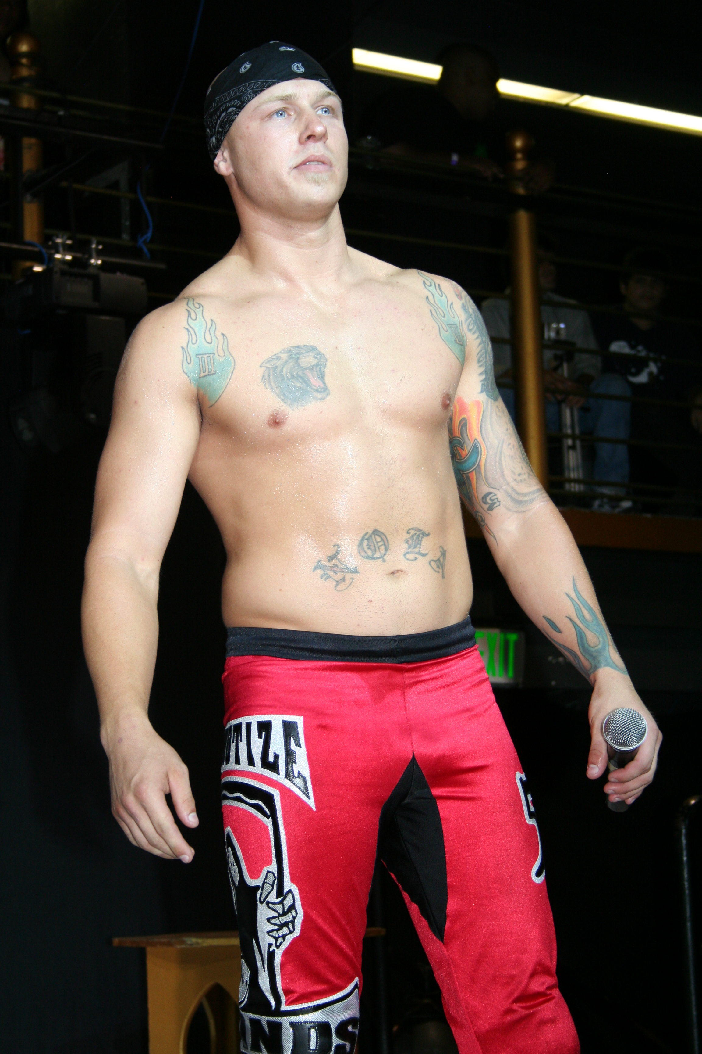 Professional wrestler Luke Hawx (real name Oren Hawxhurst) at XPW X (XPW's 10th annoversary show) on August 22, 2009.